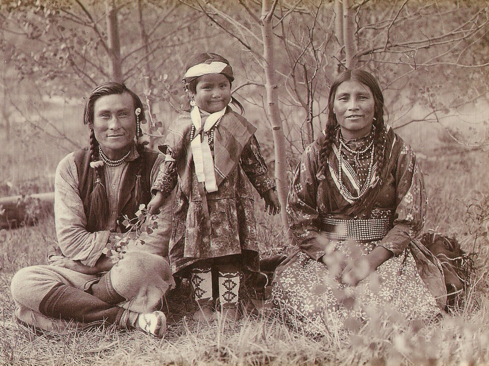 Samson Beaver, his wife Leah, and daughter Frances Louise, 1907